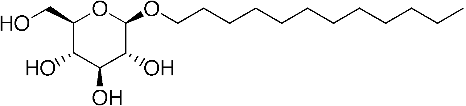 chemical structure of beta-D-lauryl glucoside